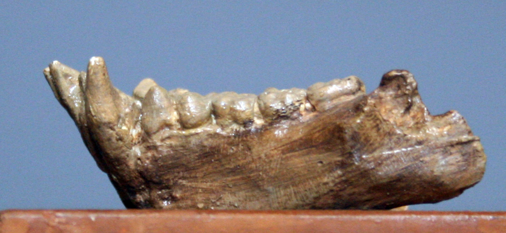 mandible fragment of Pliopithecus antiquus from Sansan, France (Middle Miocene, 12,5 to 13 My) ; cast from Museum national d'histoire naturelle, Paris